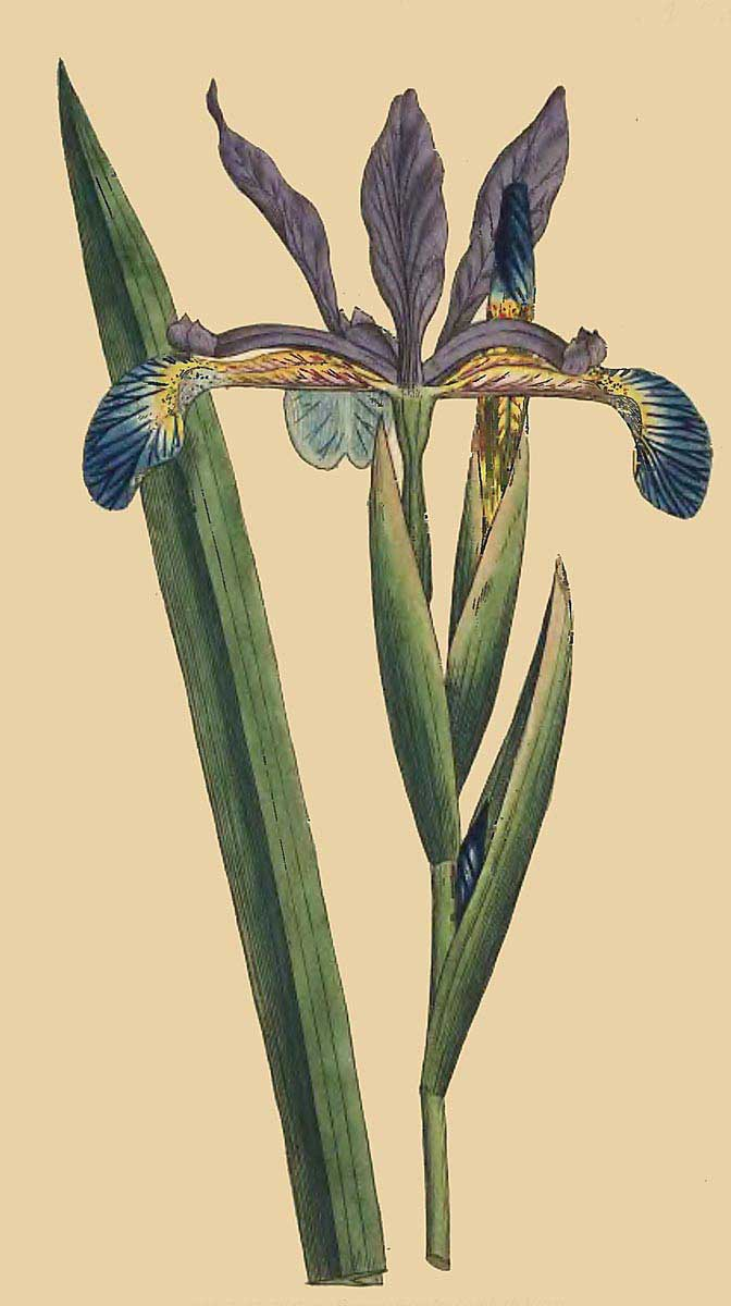 A digital image of an illustration of Iris spuria in William Curtis's The Botanical Magazine or Flower-Garden Displayed, volume 2, plate 58 . The image would appear to be modifified and another source, which details the line, caption and paper is located at [ angio/images/bmag58.jpg] and I must get round to uploading a better one.